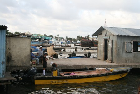 Bluefields port Nicaragua